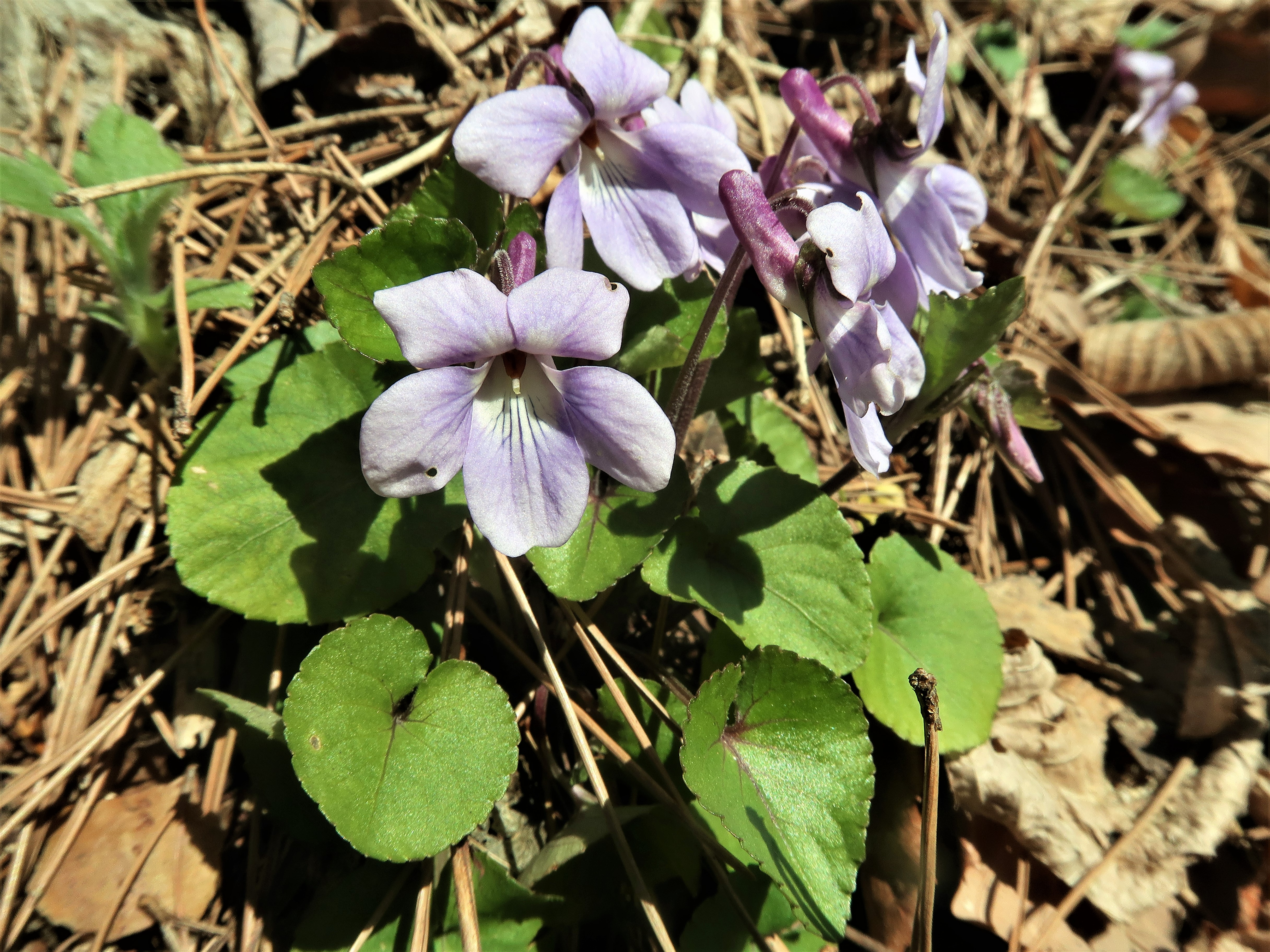 Viola grypoceras, Aizu area, Fukushima pref., Japan